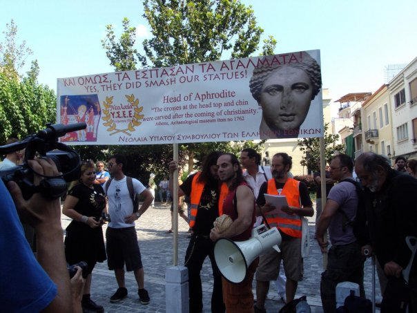 Greek Hellens, adherents of Hellenism, members of the YSEE, Supreme Council of Ethnikoi Hellenes, protesting against theocratic government.